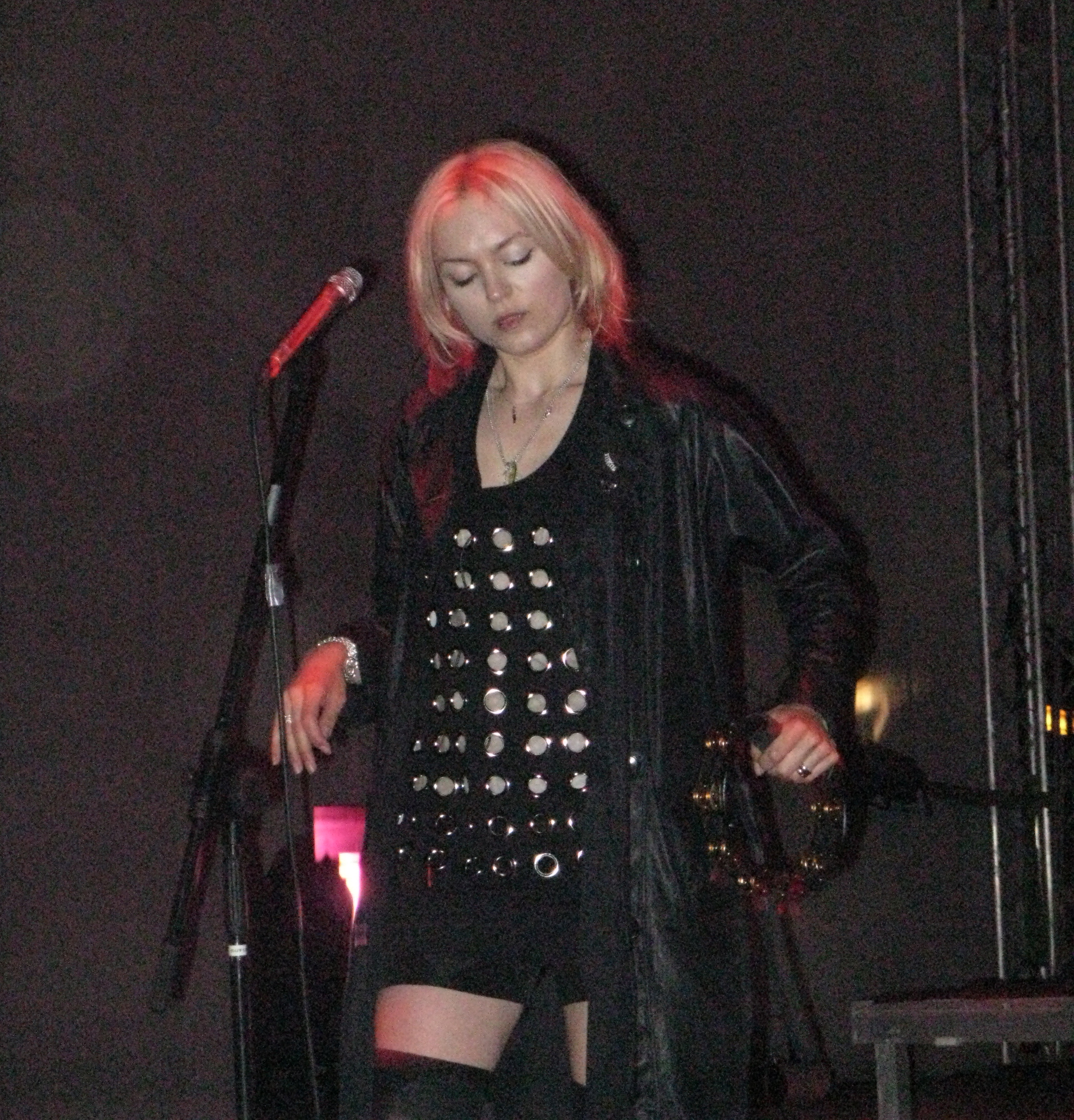 Pati Yang from FlyKKiller on concert in Toruń